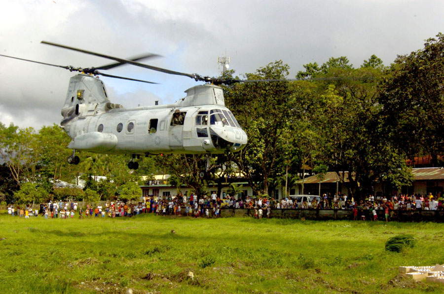 A CH-46E Sea Knight from Marine Medium Helicopter Squadron 262 off the USS Essex takes off after unloading food, blankets, water and other vital supplies to survivors of a devastating landslide that struck Southern Leyte Feb. 17. The Essex is currently on station off the coast providing humanitarian aid and assistance. (Official U.S. Navy Photo by Petty Officer 1st Class Michael D. Kennedy).